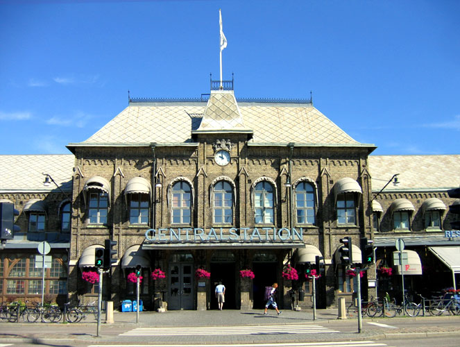 Göteborgs Centralstationen Author: Matthew McPherson Gothenburg, Sweden - July 2005 Canon Powershot A95